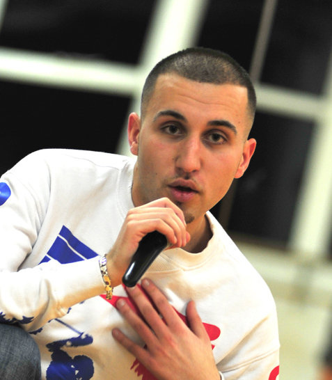 British hip hop artist En Derin in concert in 2010